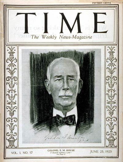 TIME Magazine Cover Featuring Edward M. House (25 Jun 1923)